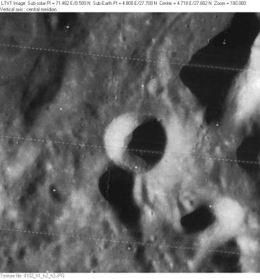 LO-IV-102H Santos-Dumont lunar crater (at center)